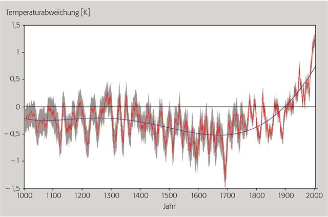 Changes in mean annual temperatures in Central Europe since the year 1000